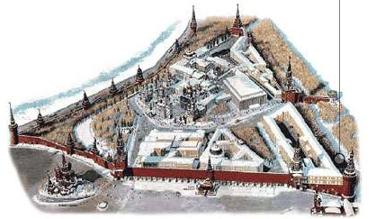 Overview map of the Moscow Kremlin. Location of Grave of the Unknown Soldier marked.